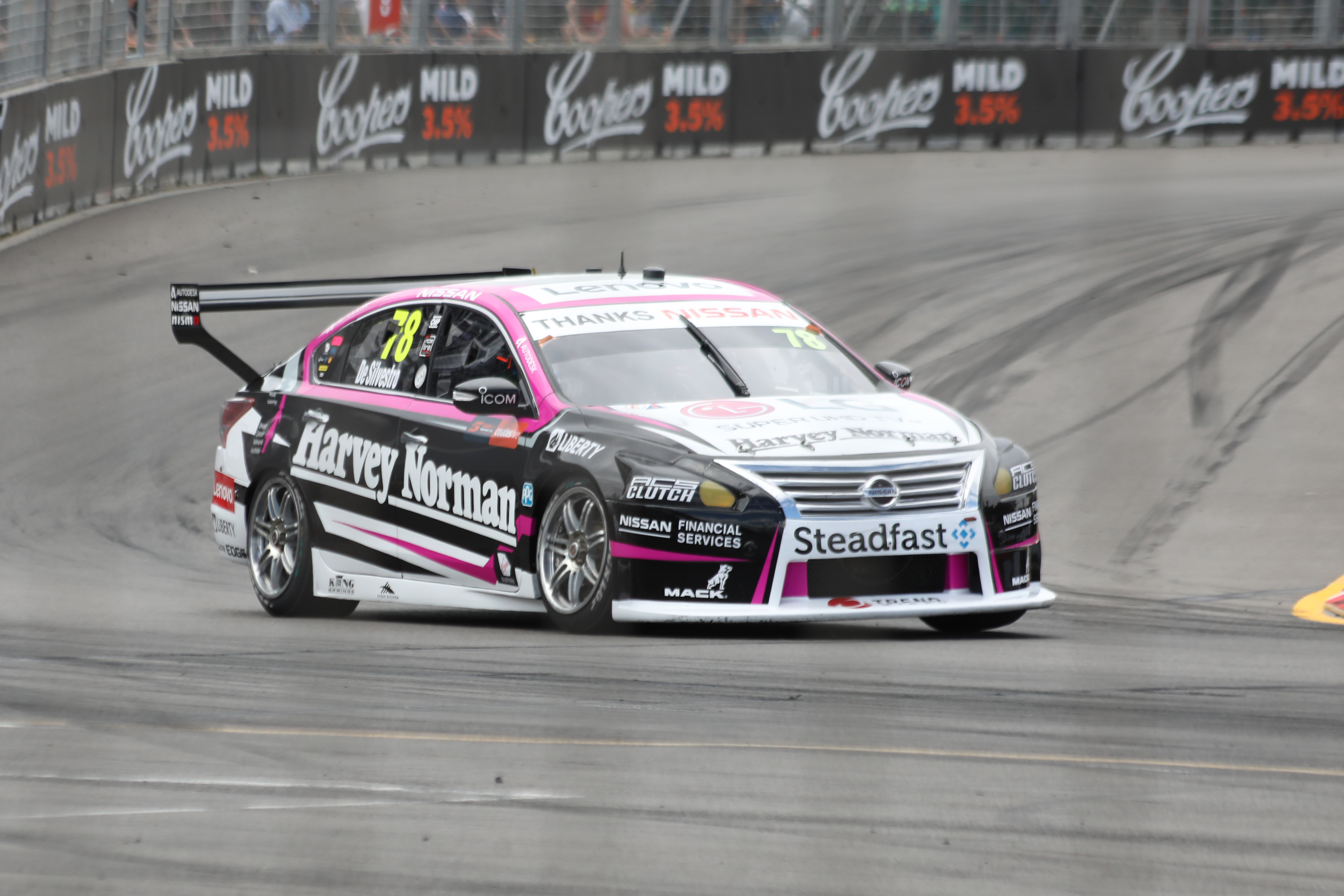 Simona de Silvestro during Race 31 qualifying at the 2018 Coates Hire Newcastle 500.